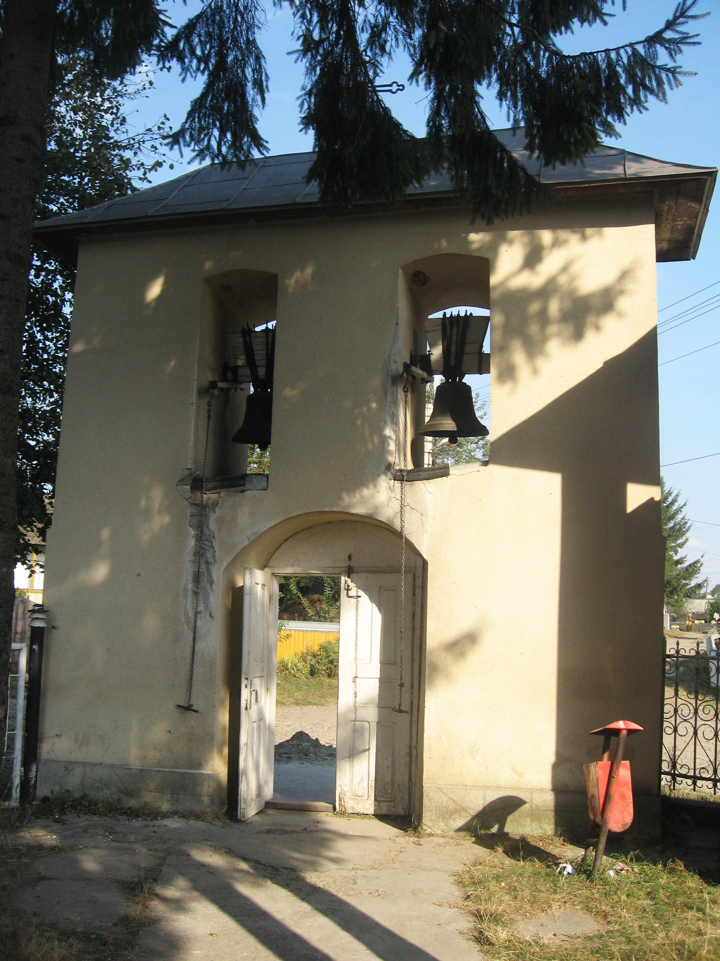 Biserica Sfântul Dumitru din Zahareşti 02